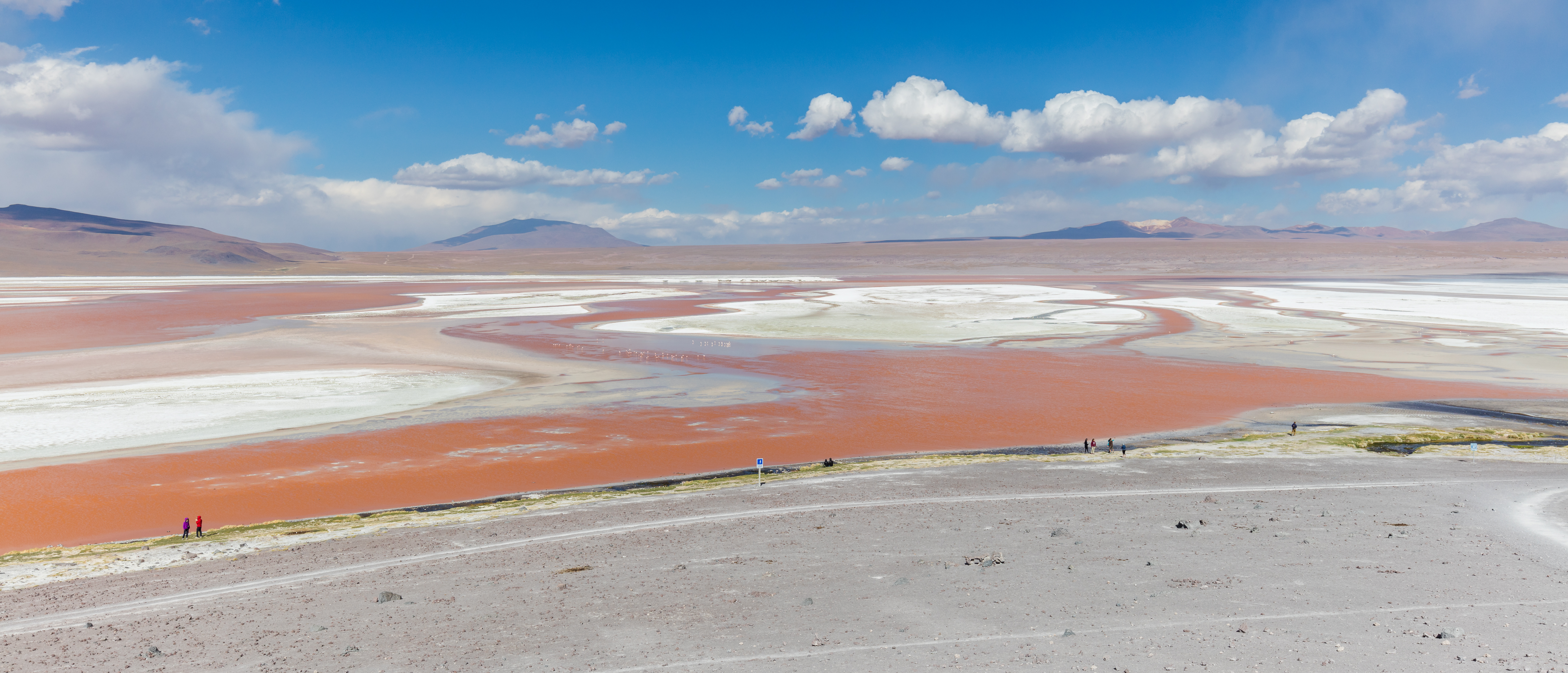 Laguna Colorada, Bolivia